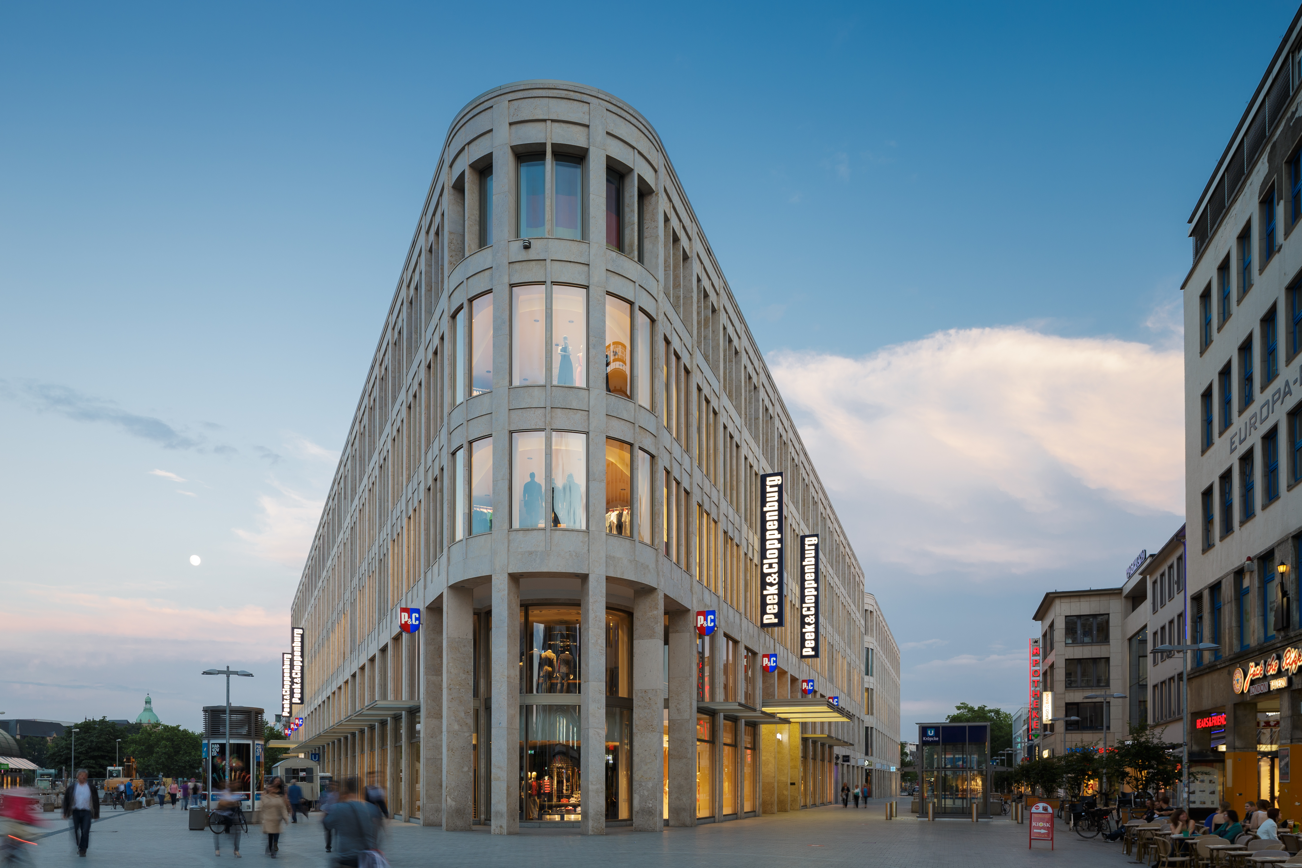 Department store "Kroepcke-Center" located at Kroepcke, the central square in Hanover, Germany. The image shows the building after an extensive renovation.